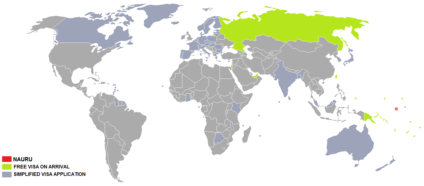 Visa policy of Nauru Nauru Free visa on arrival Simplified visa application